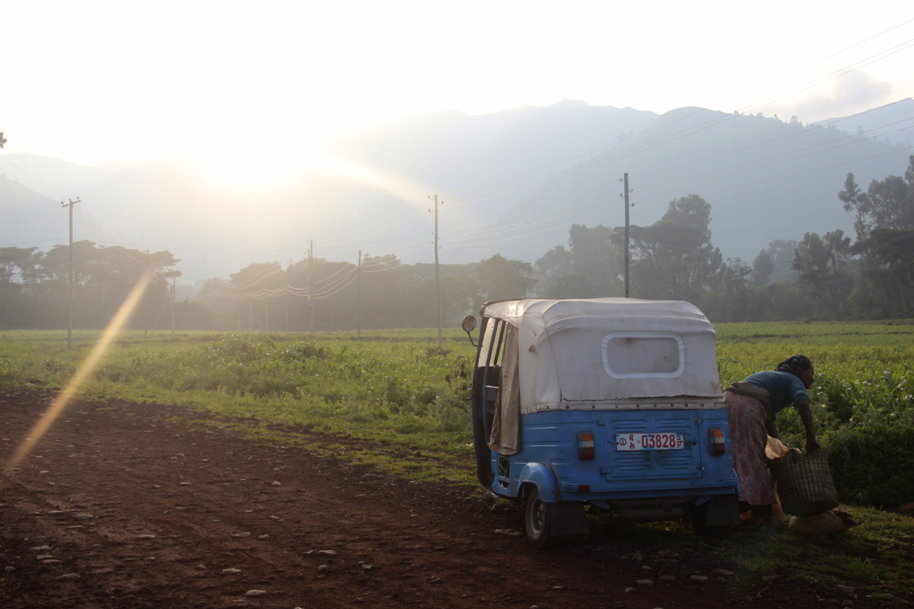 A woman in Yetebon Ethiopia, on the road leading to the Project Mercy Hospital.